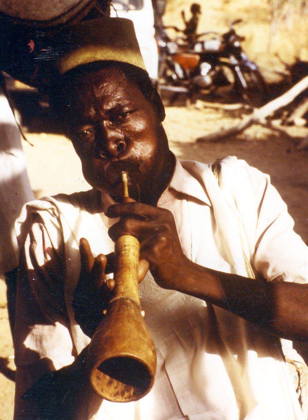 An algaita player, fulbeized Kapsiki (Fulbe, Fulani)